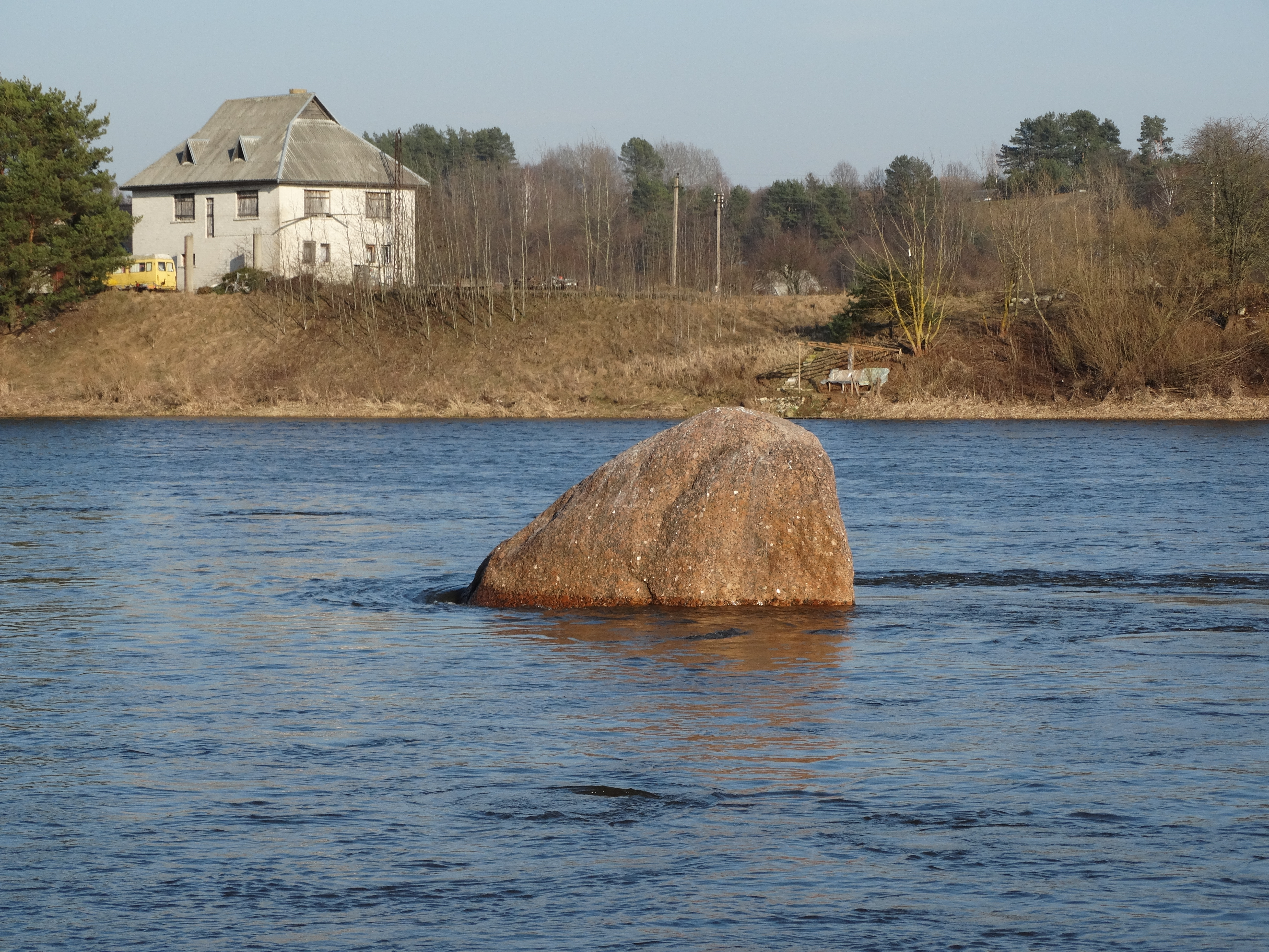 Boulder of Gaidelis in Neris River, Jonava district, Lithuania